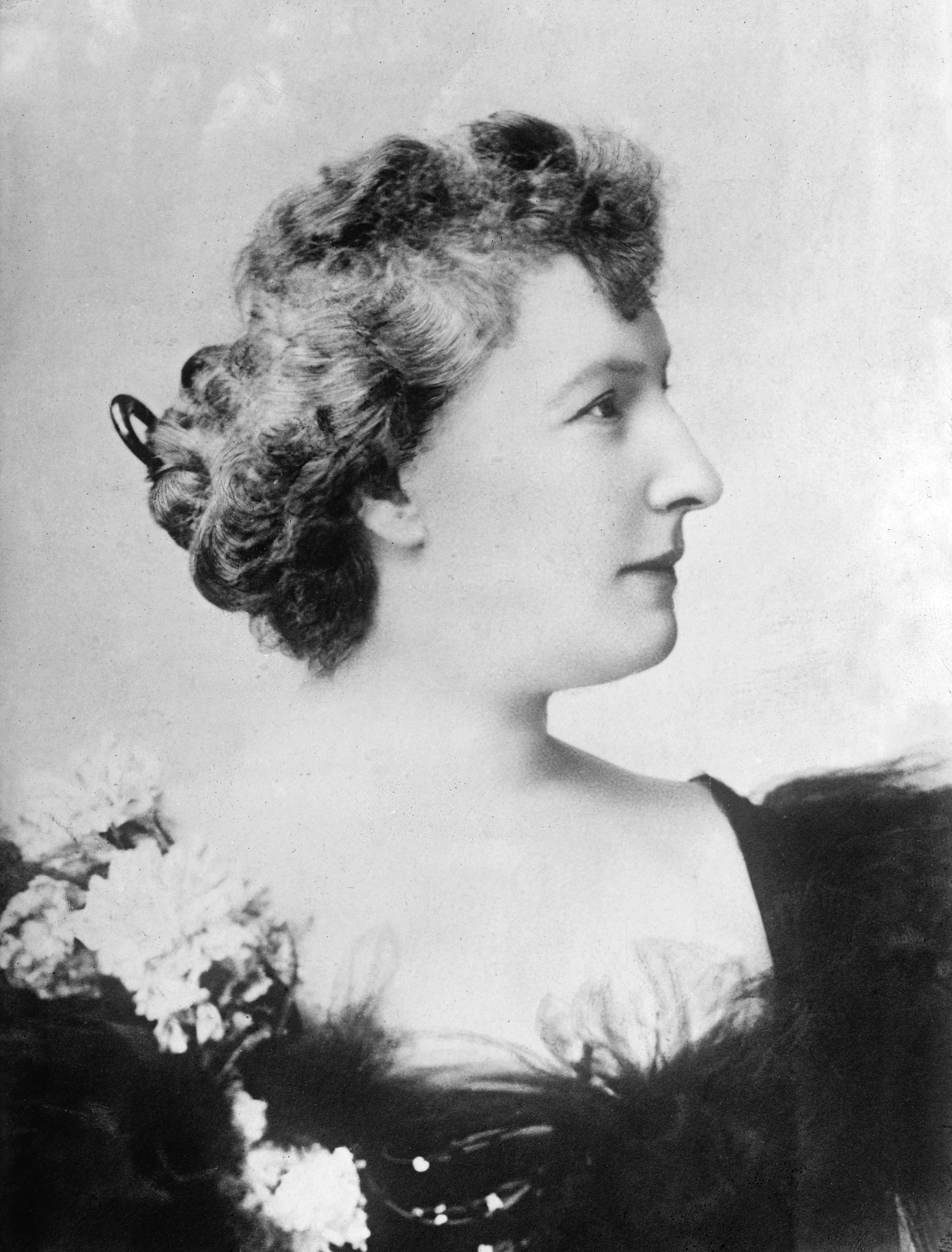 Princess Louise of Belgium